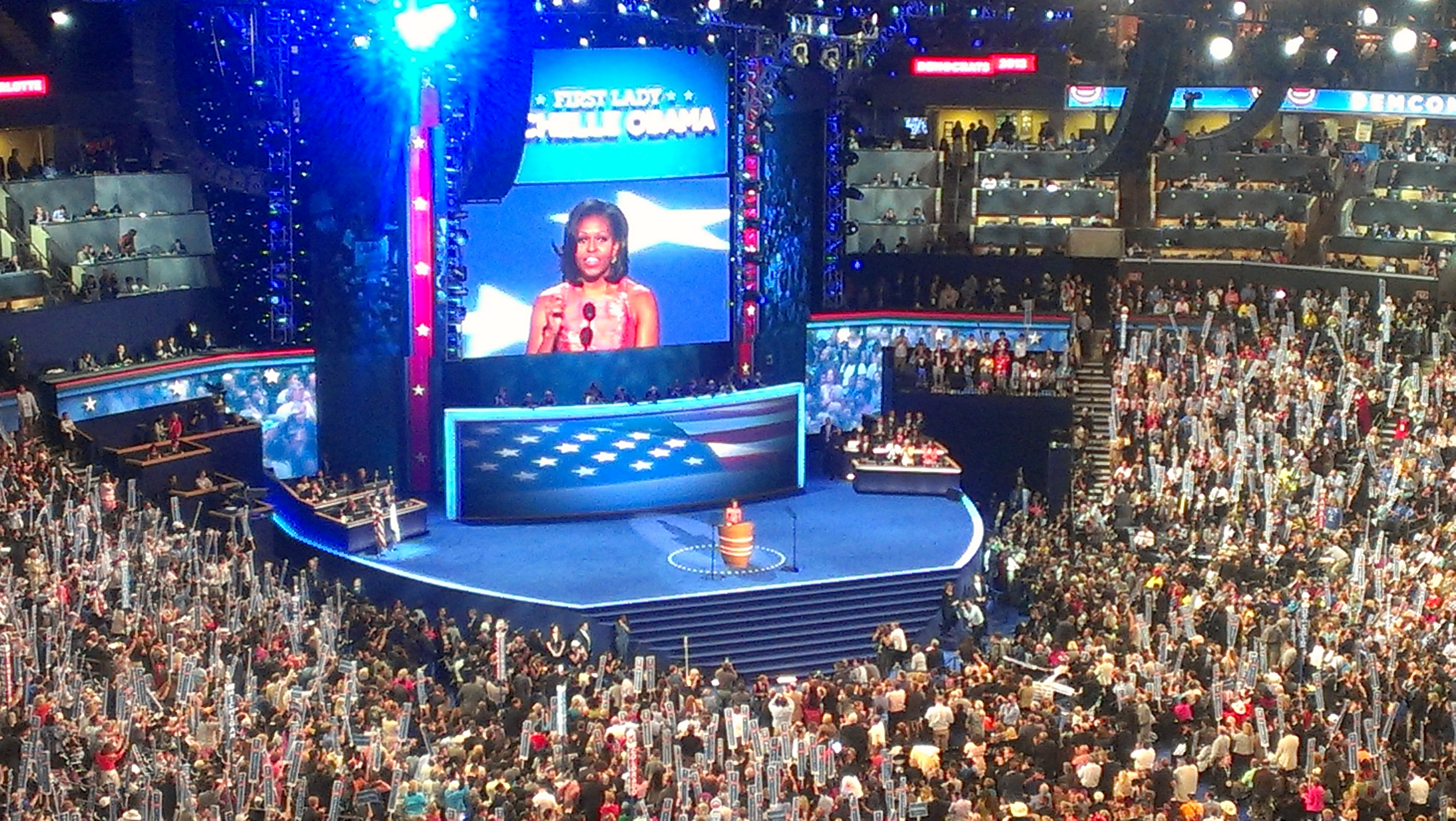 2012 Democratic National Convention